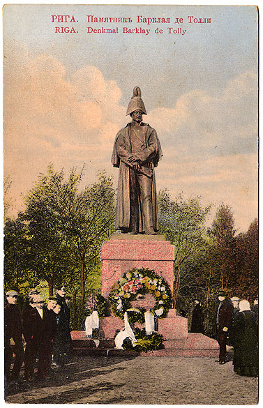 Statue of Prince Michael Andreas Barclay de Tolly in Riga, Latvia - at the time a part of the Russian Empire.